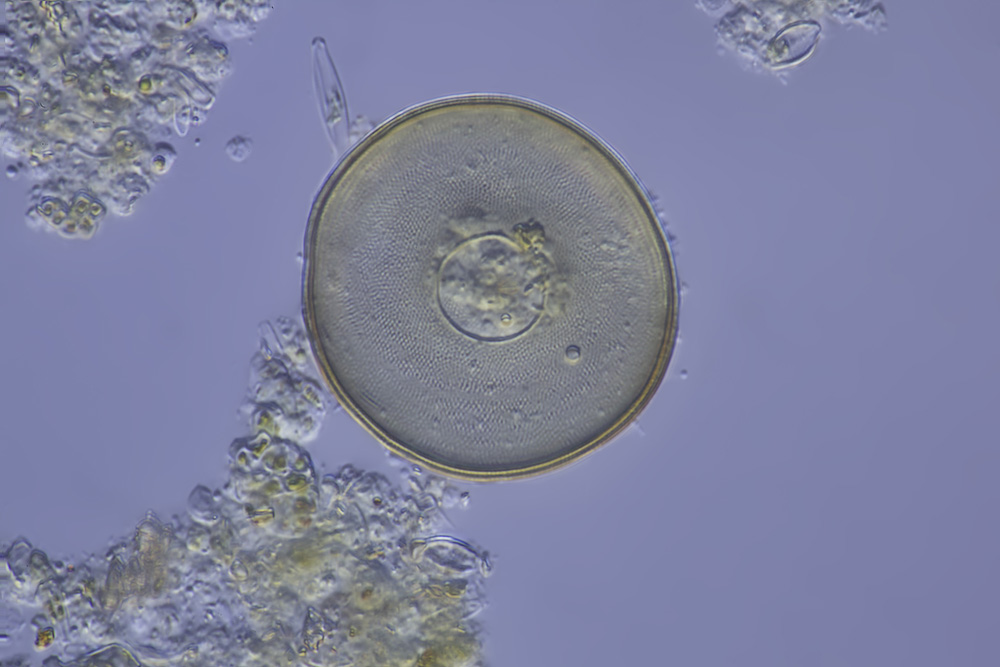 Arcella is a genus of testate amoebae.